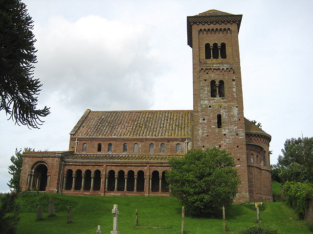 St Catherine's Church, Hoarwithy Built on a steep hillside overlooking the Wye Valley village of Hoarwithy, the style of St Catherine's was described by Pevsner as 'South Italian Romanesque and semi-Byzantine'. Its tall campanile is a landmark for miles around and the interior is stunning.